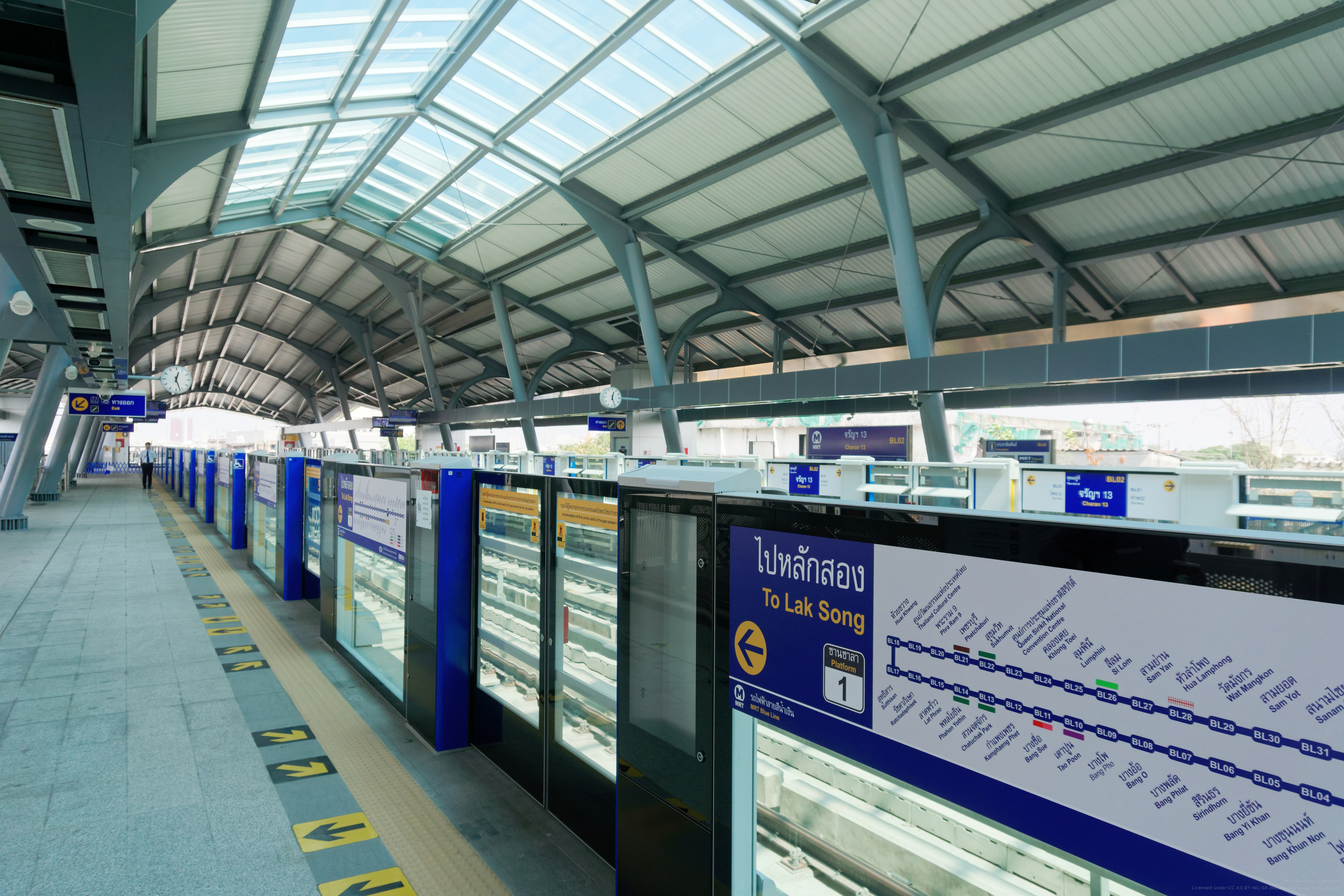 MRT Charan 13 – Platform